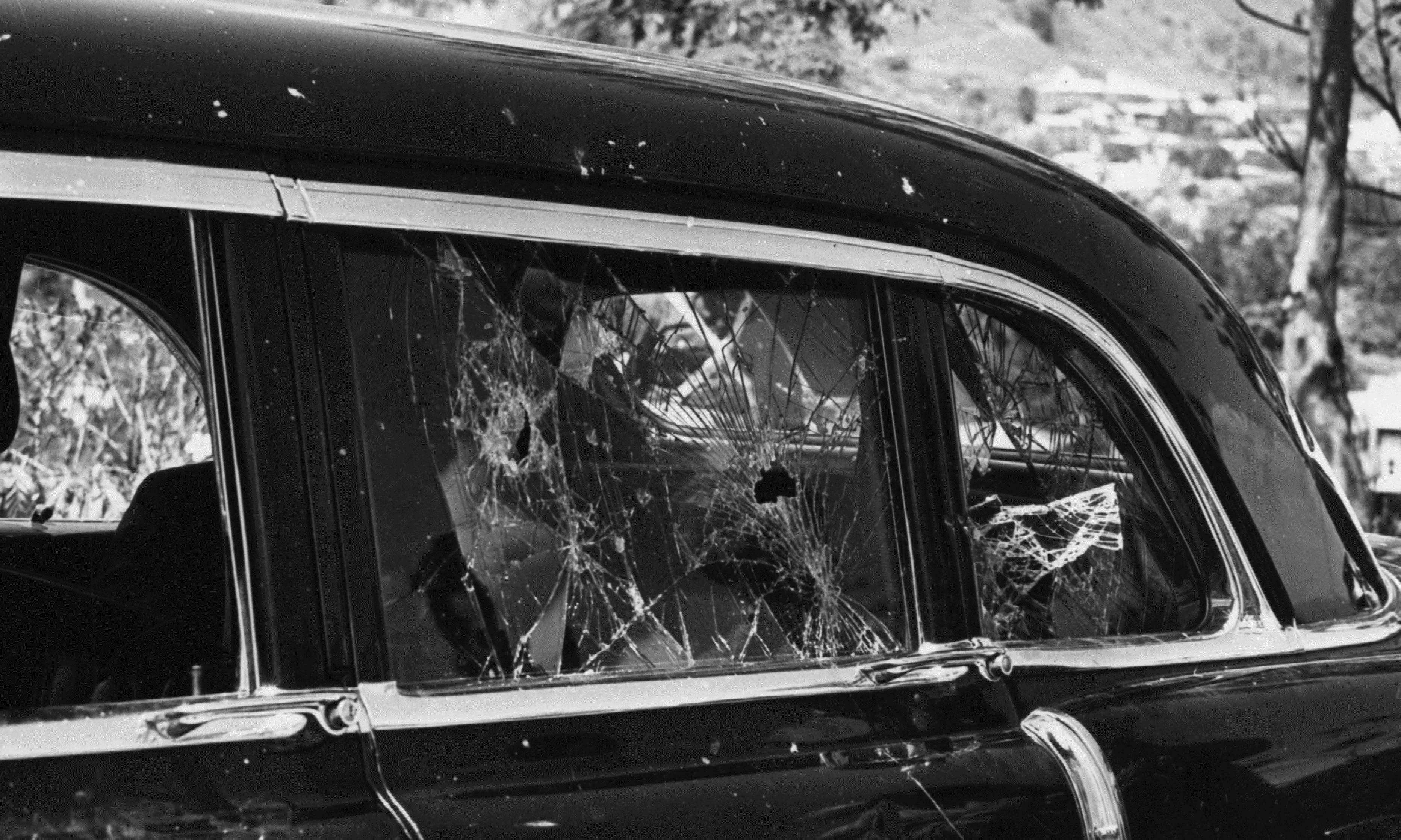 An automobile that has sustained damage following a mob attack in Caracas, Venezuela, targeting Vice President Richard Nixon. Close-up of shattered windows